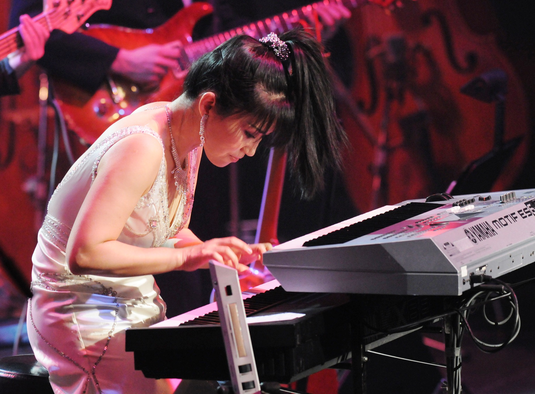 Contemporary jazz pianist Keiko Matsui performs at the Daughters of the American Revolution Constitution Hall in Washington.